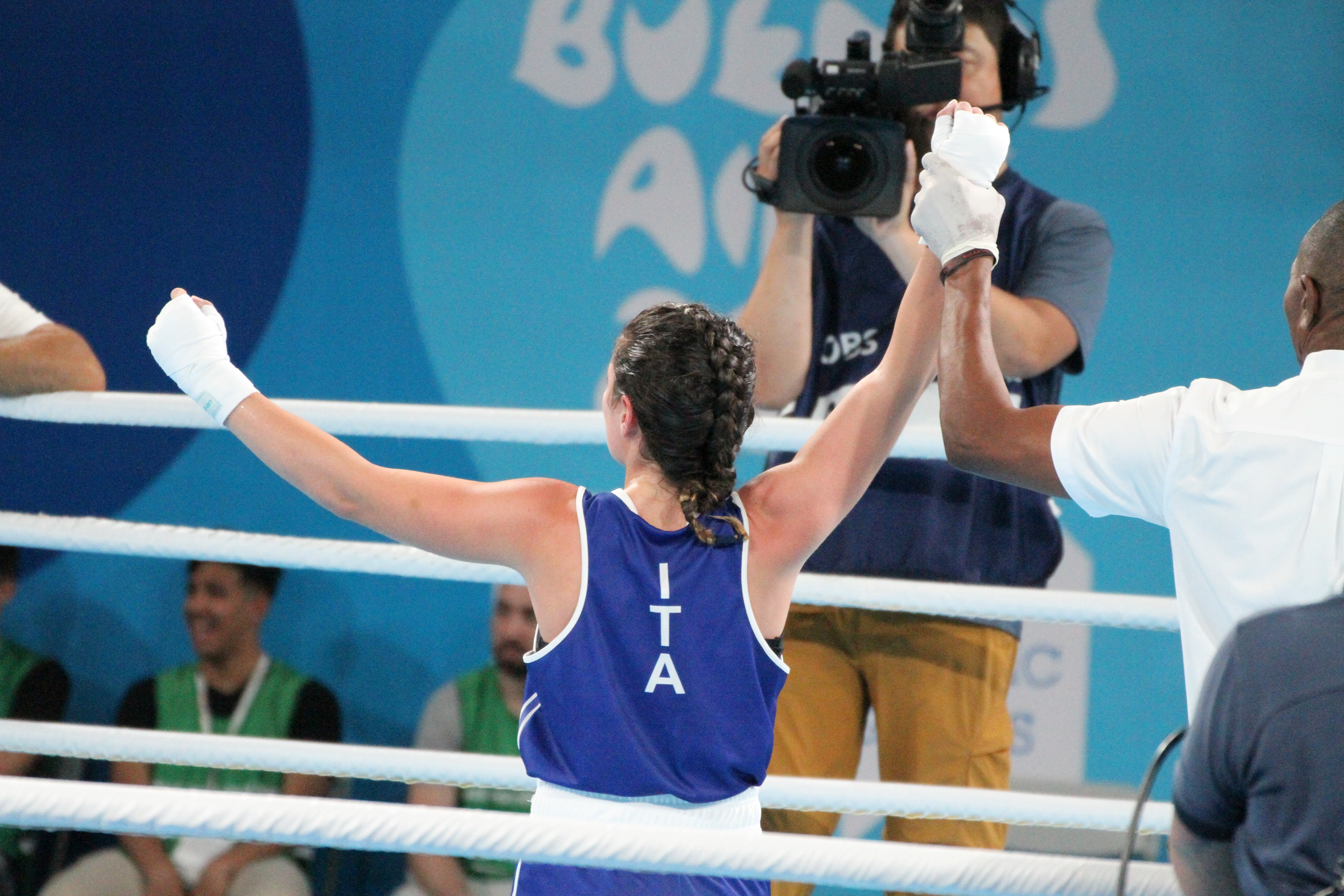 Boxing at the 2018 Summer Youth Olympics on 18 October 2018 – Girl's flyweight Gold Medal Bout - Martina La Piana (Italy, blue) beats Adijat Gbadamosi (Nigeria, red) 5-0; Referee is James Beckles (Trinidad and Tobago).